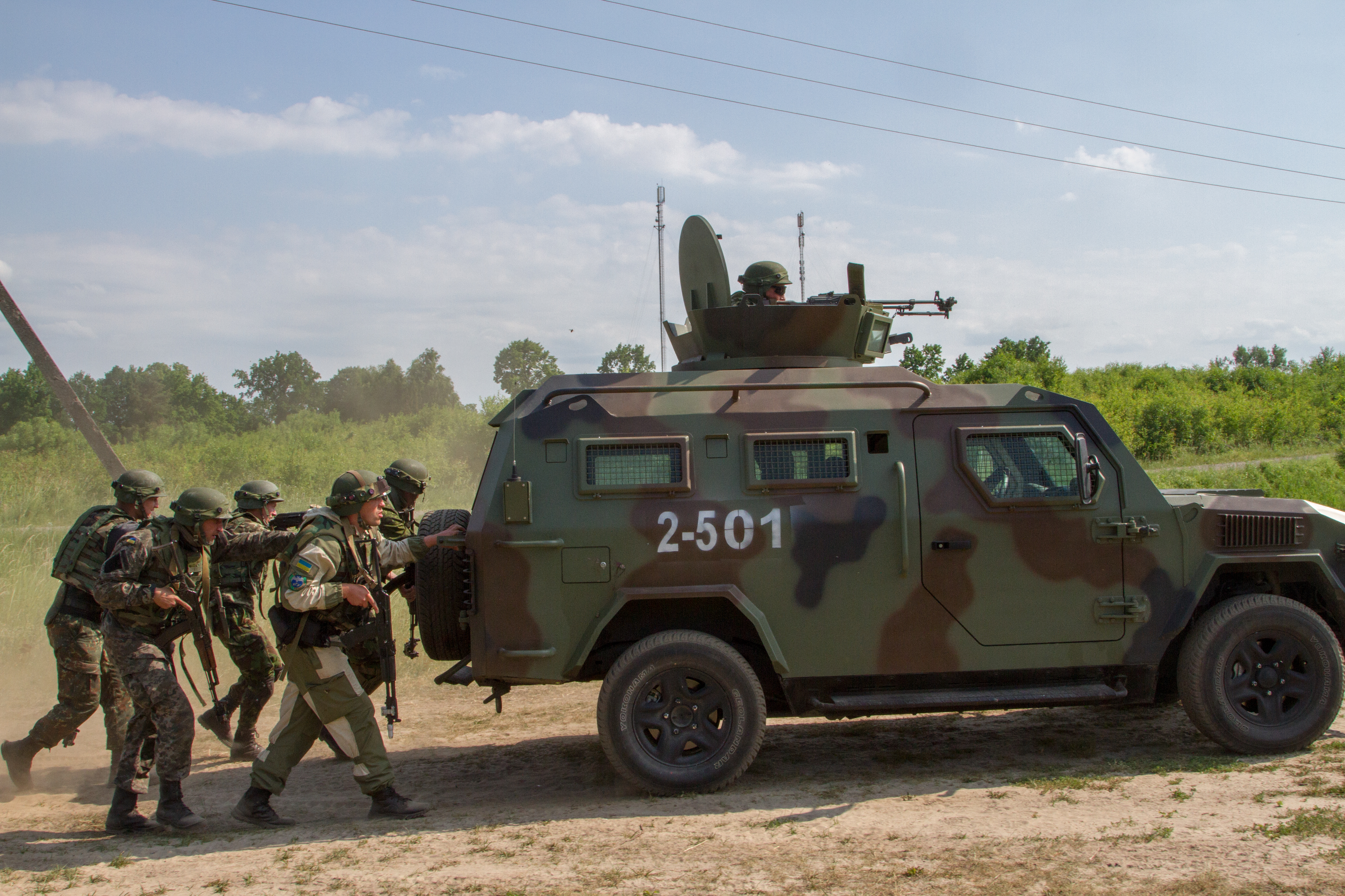 Soldiers from the Ukrainian National Guard's 3029th Regiment use a vehicle as cover while advancing during a field exercise June 10, 2015, as part of Fearless Guardian. Paratroopers from the U.S. Army's 173rd Airborne Brigade are in Ukraine for the first of several planned rotations to train Ukraine's newly formed national guard as part of Fearless Guardian, which is scheduled to last six months. (U.S. Army photo by Sgt. Alexander Skripnichuk, 13th Public Affairs Detachment).